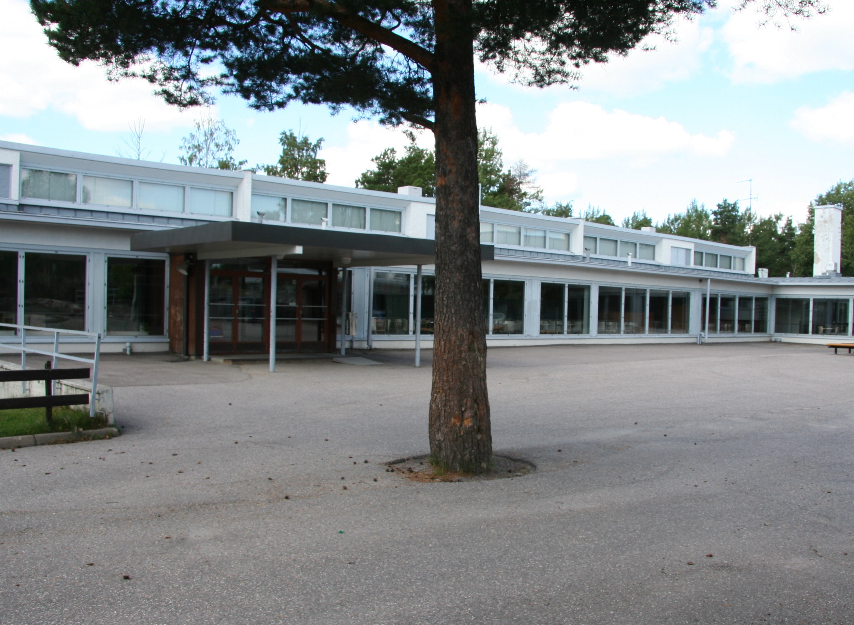 A school in Käpylä, Helsinki